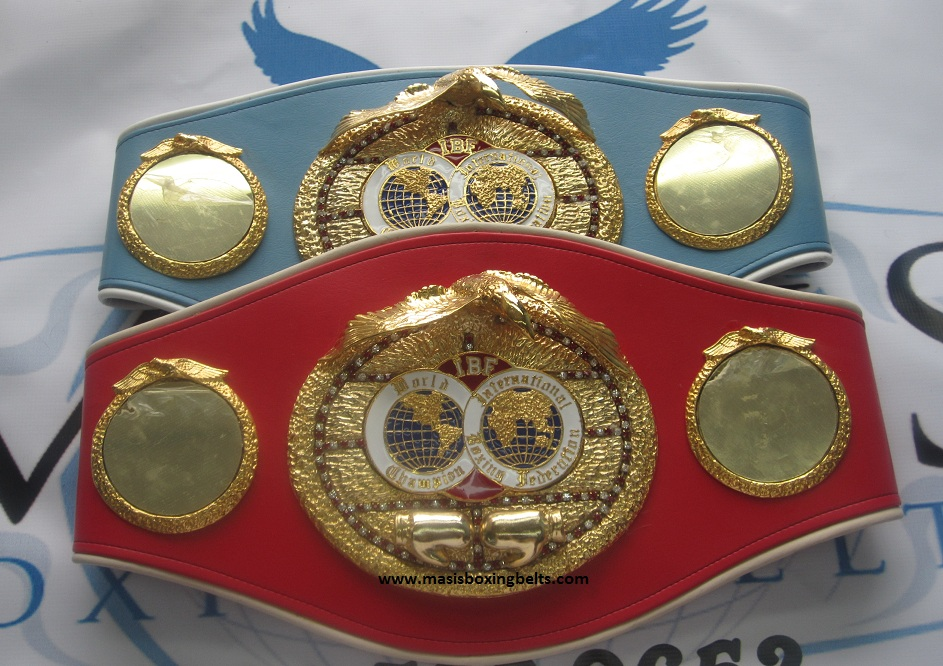 This is an IBF World Championship Belt